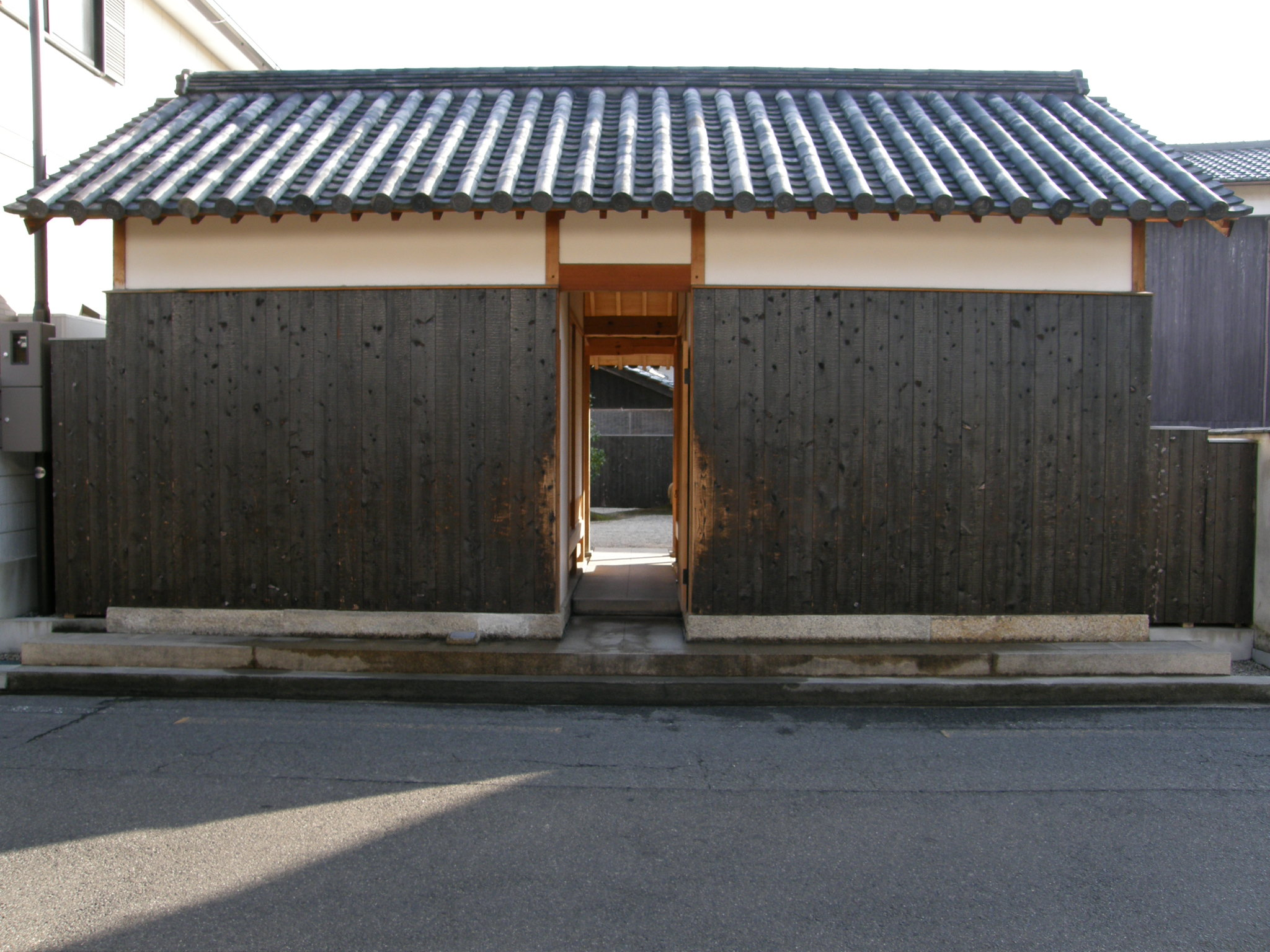 Art house project in Naoshima, Gokaisyo